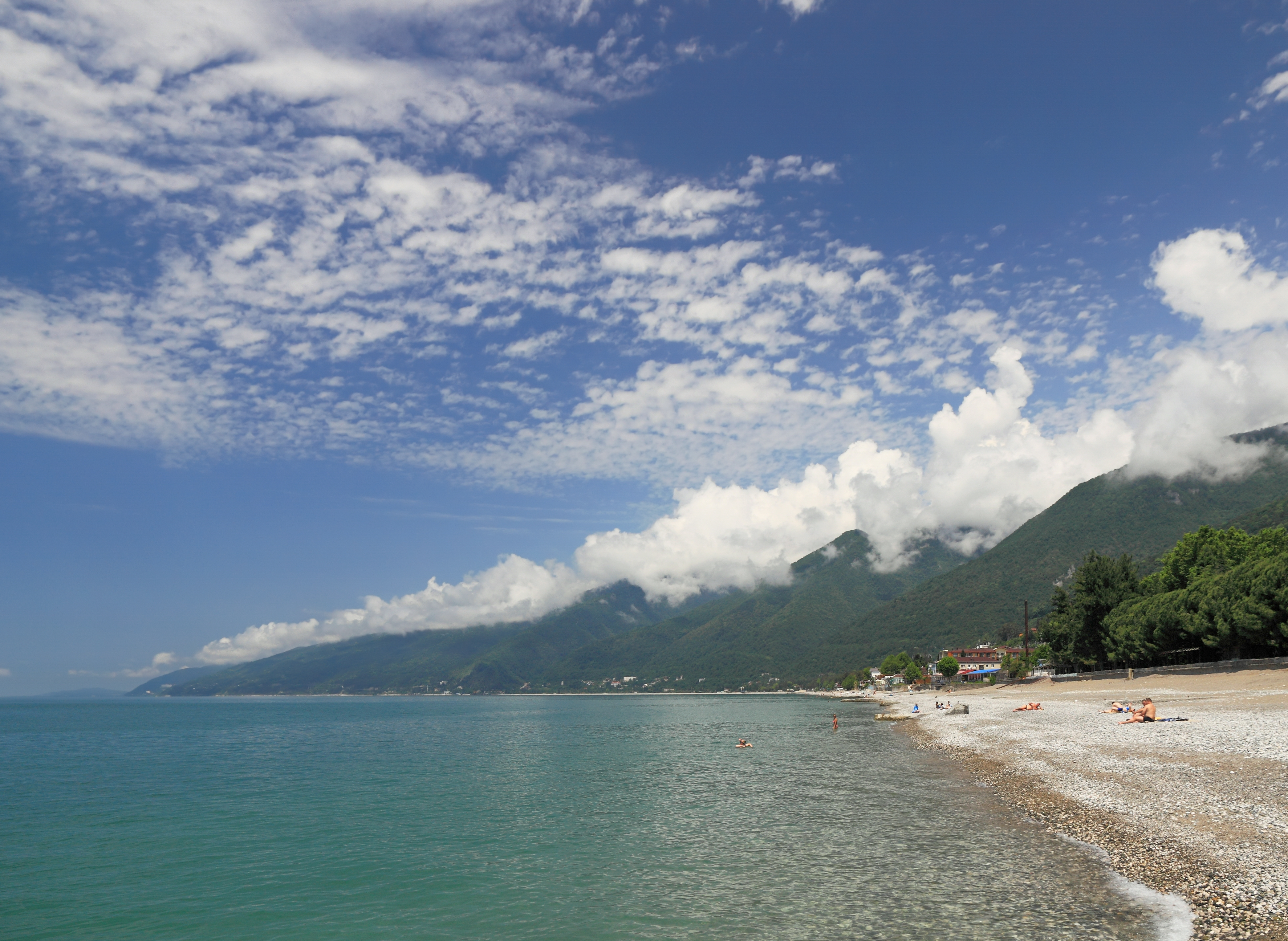 The beach. Gagra, Gagra District, Abkhazia.